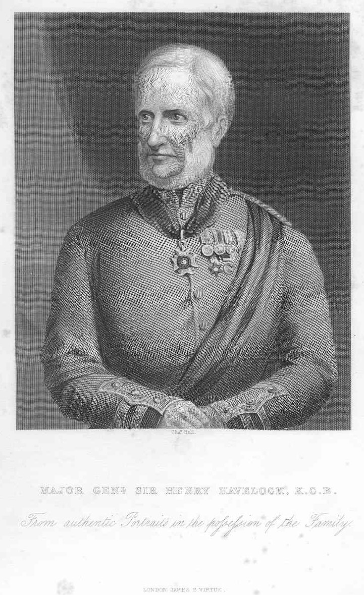 Major-General Sir Henry Havelock (1795-1857)